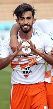 Ali Gholizadeh. Gallery link.